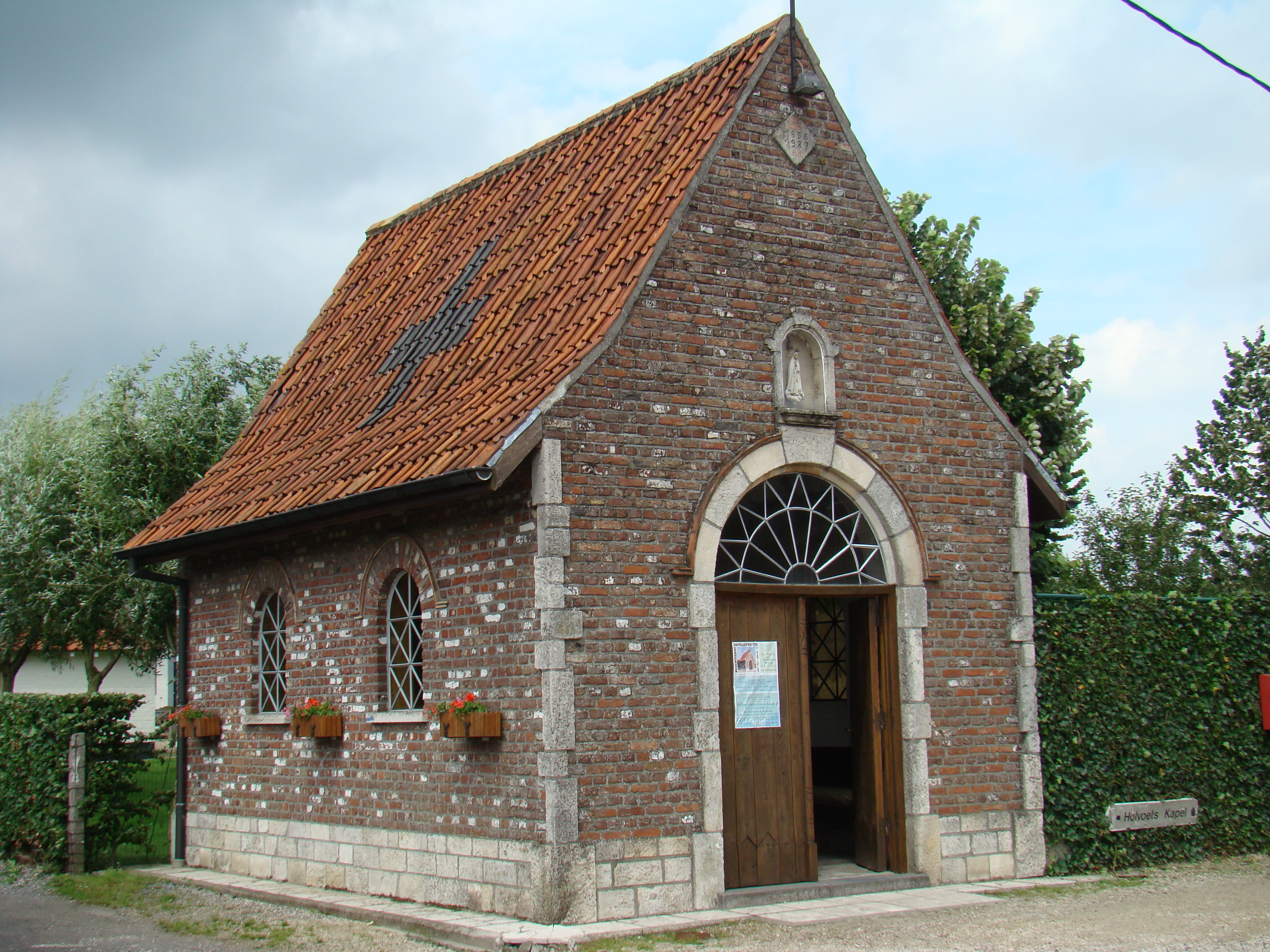 Holvoets chapel Hulste, Harelbeke (West Flanders, Belgium)